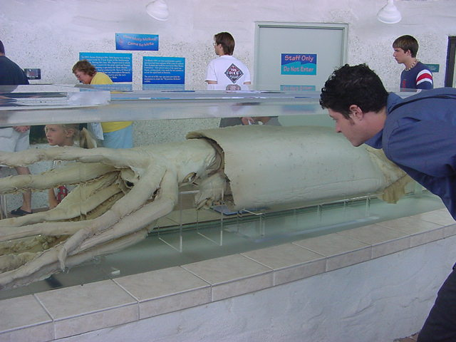 Giant squid preserved in a tank.